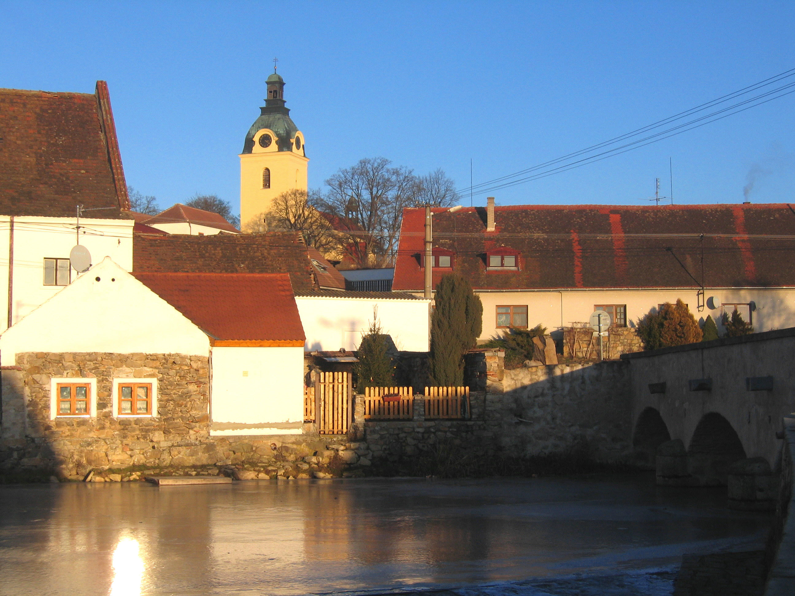 Putim (Písek district, Czech republic) - panorama of the village vith the stone bridge over the Blanice river